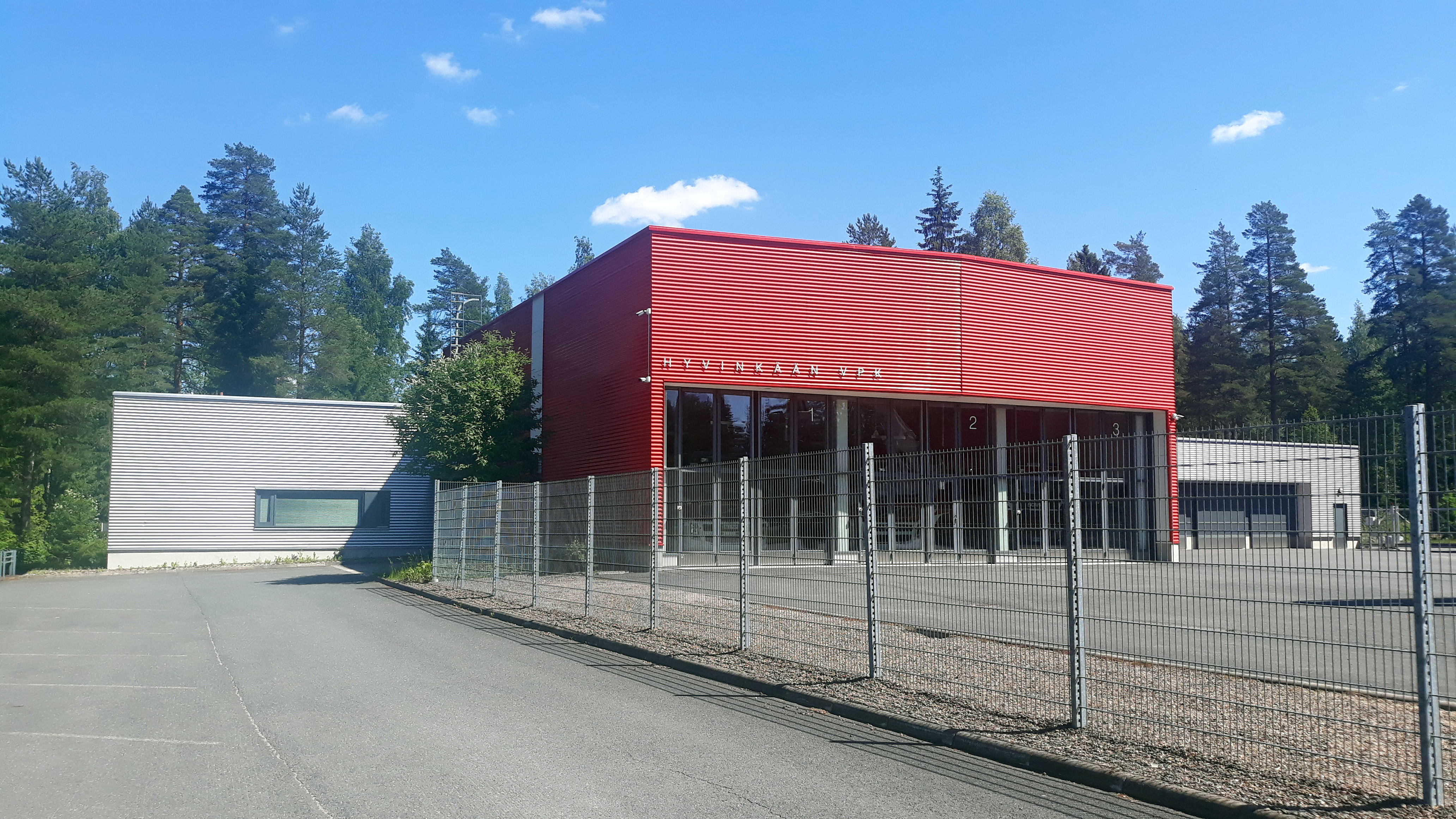 Fire station of Hyvinkään VPK volunteer fire department.